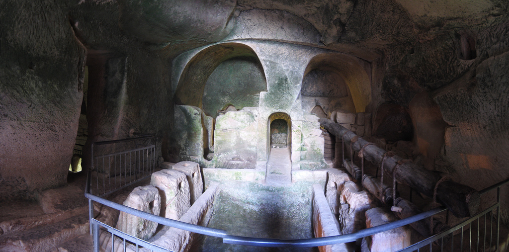 Oil Press in Tel-Maresha, Archeological sites of Israel